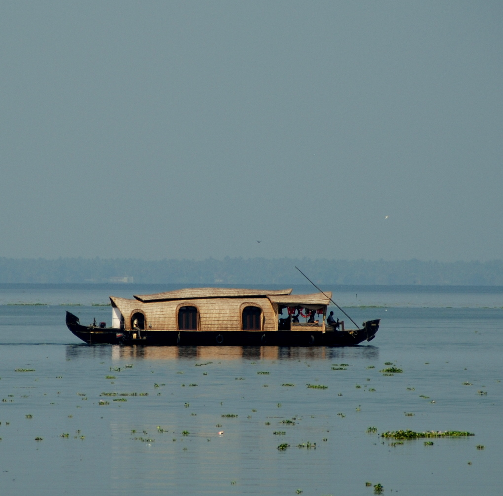 A lone kettuvellam in the Vembanad lake